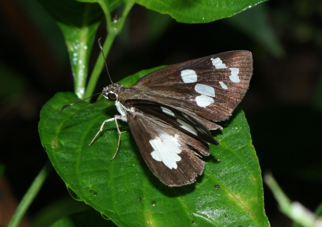 Grass Demon (Udaspes folus) UP. Thane, Maharashtra. (2)